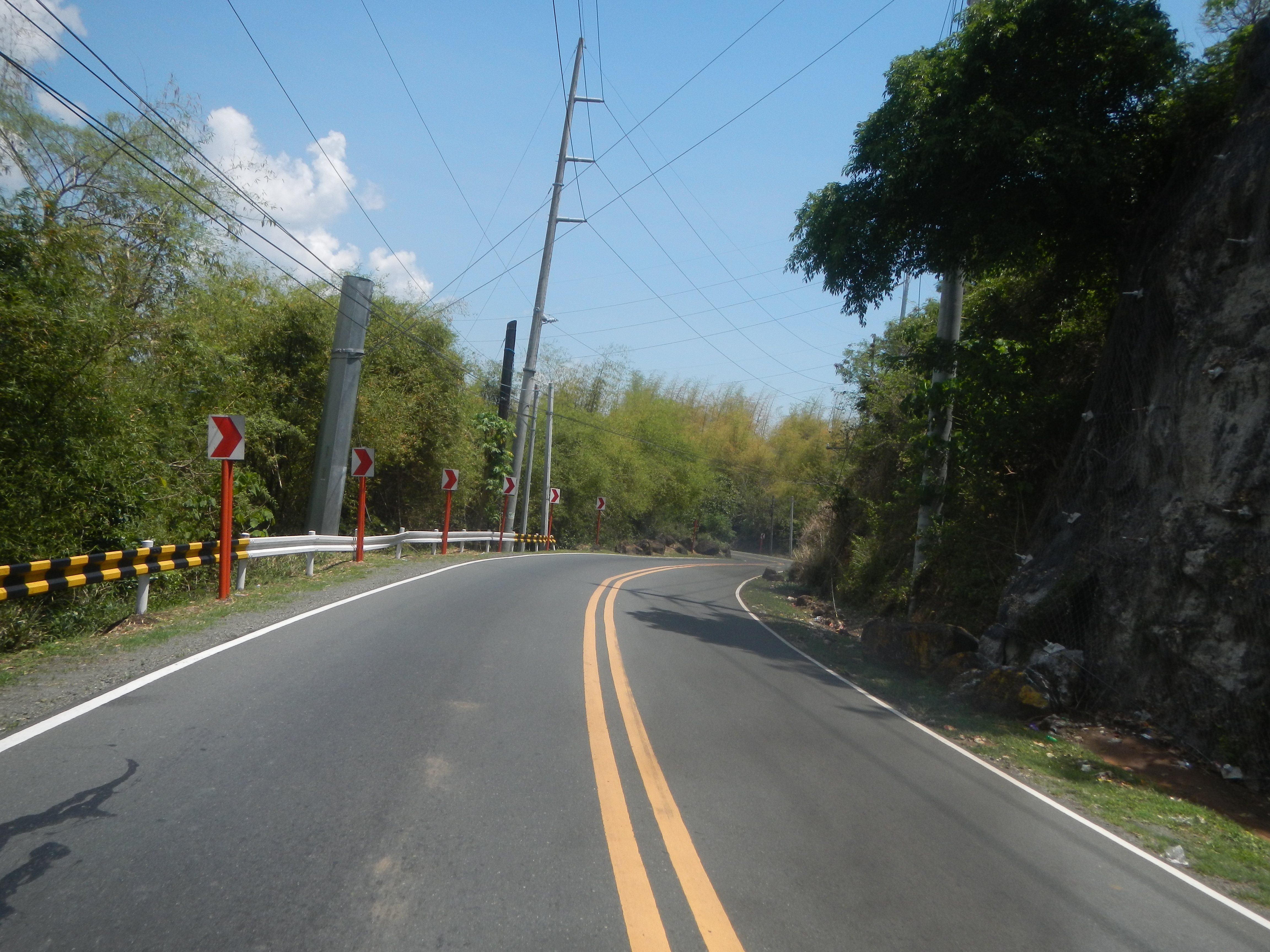 Pililla (Halayhayin) Highway (Manila East Road) interconnecting with Pililla Highway (Manila East Road) Manila East Road Morong-Baras-Tanay-Pililla Highway (Manila East Road) Baras Highway (Manila East Road) Barangays Maybangcal, Morong, Rizal 14.5570, 121.2445 to Lagundi, Morong, Rizal 14.5580, 121.2550 Morong,_Rizal towards Barangays Santiago, Baras, Rizal 14.5378, 121.2568 to Evangelista, Baras, Rizal 14.5172, 121.2741 Baras, Rizal towards Barangay Plaza Aldea, Tanay, Rizal 14.5357, 121.3322 Tanay, Rizal towards Barangay Hulo, Pililla, Rizal 14.4999, 121.3256 Bagumbayan, Pililla, Rizal 14.4870, 121.3321 to Halayhayin, Pililla, Rizal 14.4840, 121.3507 Malaya, Pililla, Rizal 14.3931, 121.3541 Pililla, Rizal Philippine highway network (Note: Judge Florentino Floro, the owner, to repeat, Donor Florentino Floro of all these photos hereby donate gratuitously, freely and unconditionally Judge Floro all these photos to and for Wikimedia Commons, exclusively, for public use of the public domain, and again without any condition whatsoever).